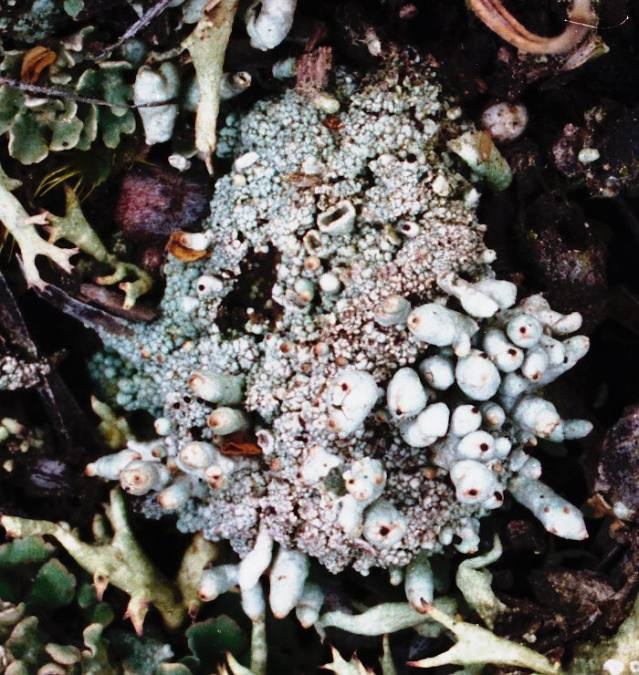 Pycnothelia papillaria (Ehrh.) L.M. Dufour, 1895 Photographed in the field. This specimen of Pycnothelia papillaria was growing on bare soil near the intersection of the Red Trail, Yellow Trail and Blue Trail in the eastern sector of the Soldiers Delight Natural Environment Area, Baltimore County, Maryland, USA (N 39o24.733', W 76o49.746')